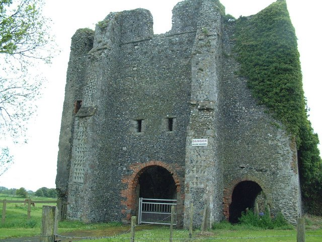 St Radigunds Abbey Gatehouse Remains of the Abbey gatehouse near Dover